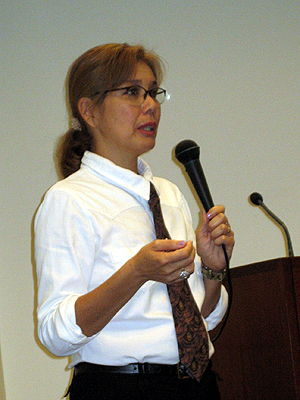 Caught Keiko at the Hawaii State Art Museum talking about Art and Mindful Living.